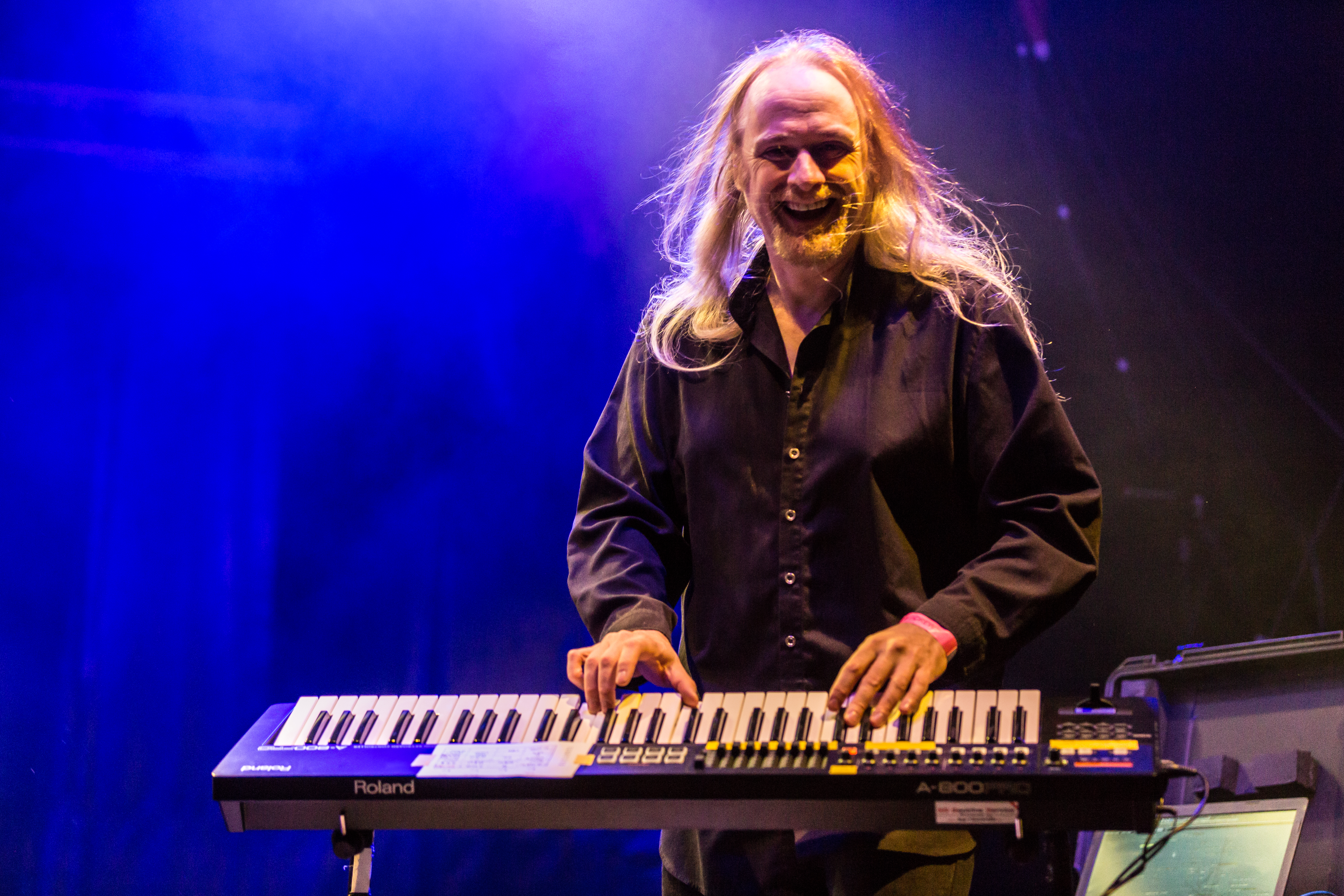 The Finnish power metal band Stratovarius at the Metal Frenzy 2017 in Gardelegen/Germany.